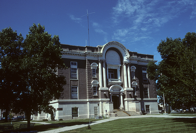 Front of the Phelps County Courthouse, located along Fifth Avenue between East and West Avenues in Holdrege, Nebraska, United States. Built in 1910, it is listed on the National Register of Historic Places.